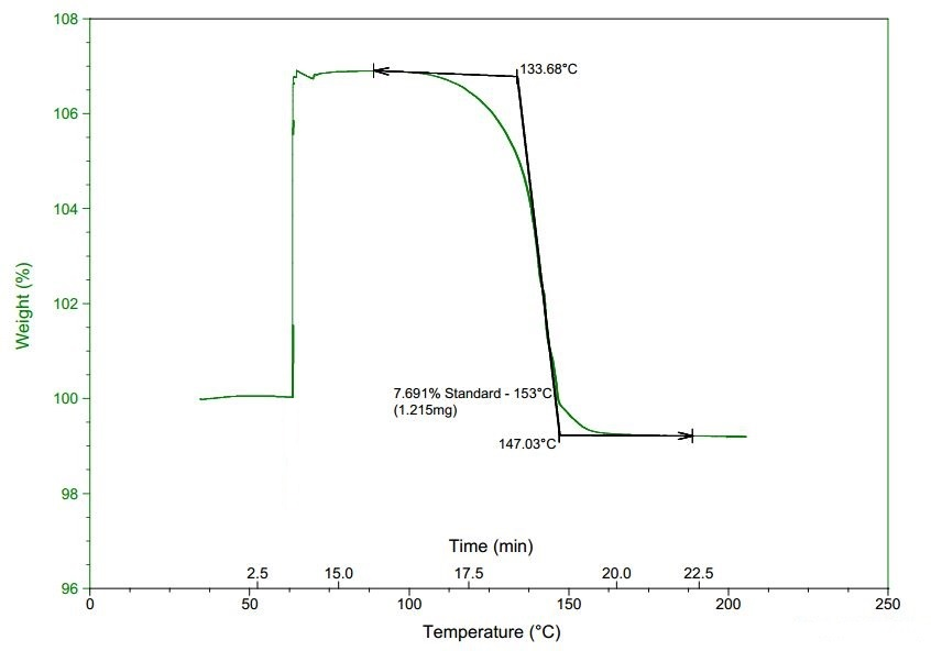 Example of temperature standard calibration in termogravimetric analysis